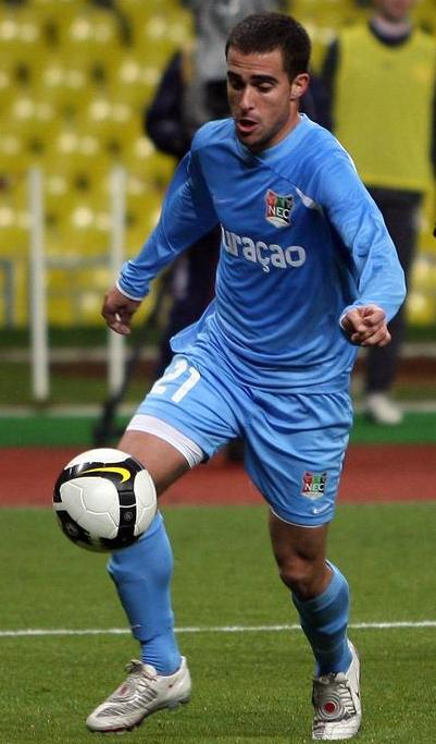 Daniel Fernández Artola